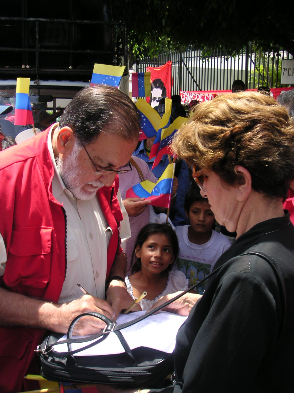 Schafik Handal, leader of FMLN handing over a declaration of solidarity to the Embassy of Venezuela. Taken at a venezuela solidarity rally in San Salvador, El Salvador, ahead of 2004 referendum i Venezuela. Photo: Soman